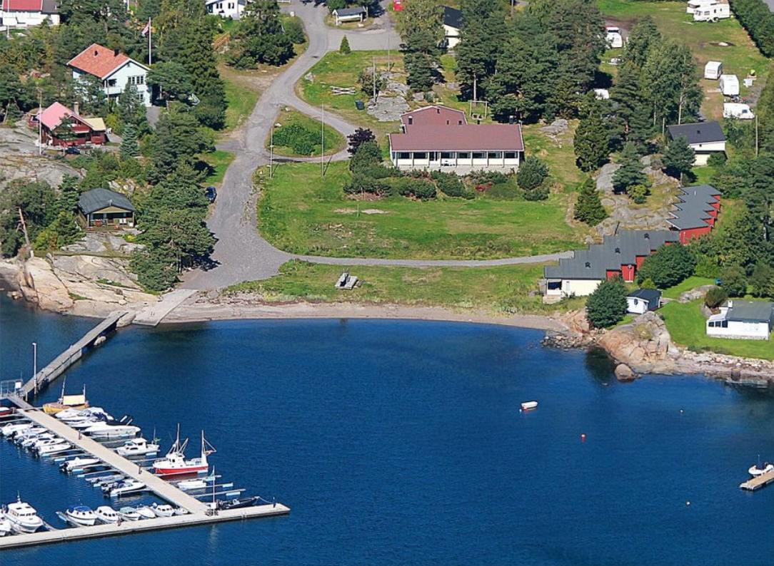 Picture of Sollökka camping.